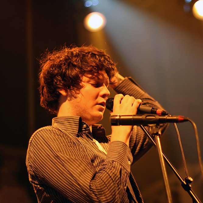 Zach Condon of the band Beirut